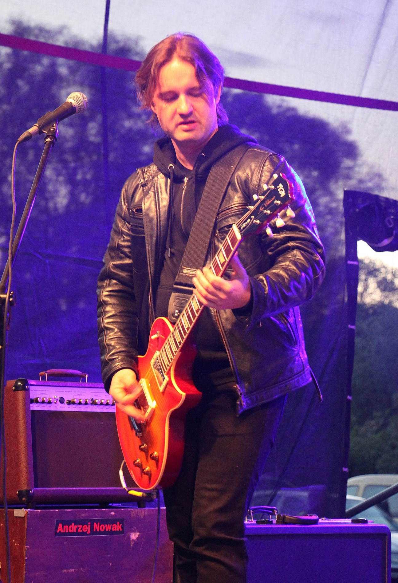 Złe Psy on stage (Jacek Kasprzyk)